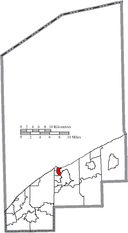 Map of the municipal and township boundaries of Lake County, Ohio, United States, as of the 2000 census, with the location of the village of Fairport Harbor highlighted. Township borders are shown only in unincorporated areas in order to differentiate incorporated and unincorporated areas more clearly.